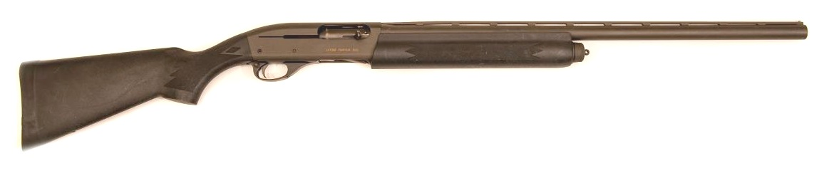 Photo of Remington Make: Model: 1187 Caliber: 12 gauge